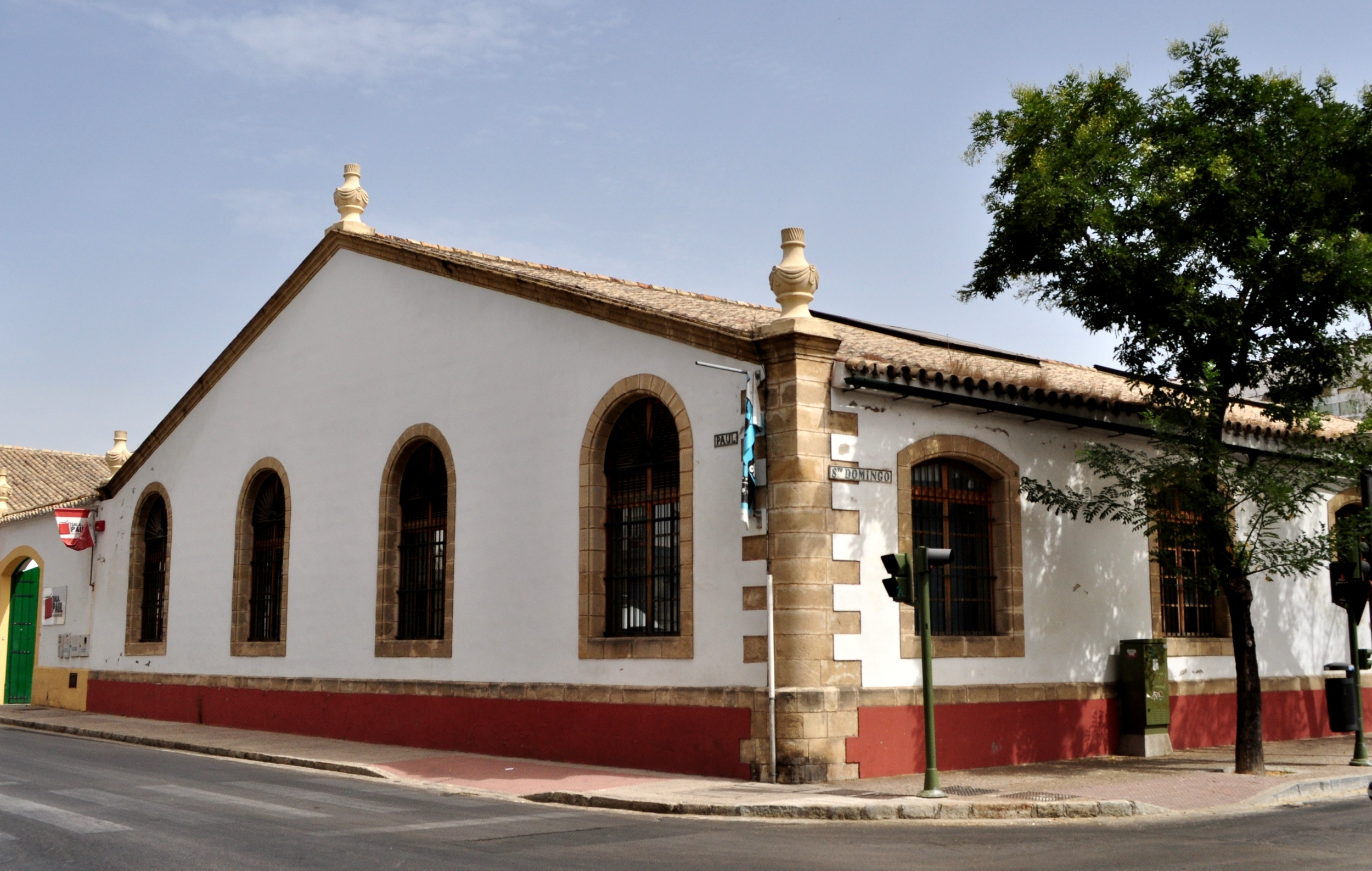 House of Youth, Jerez